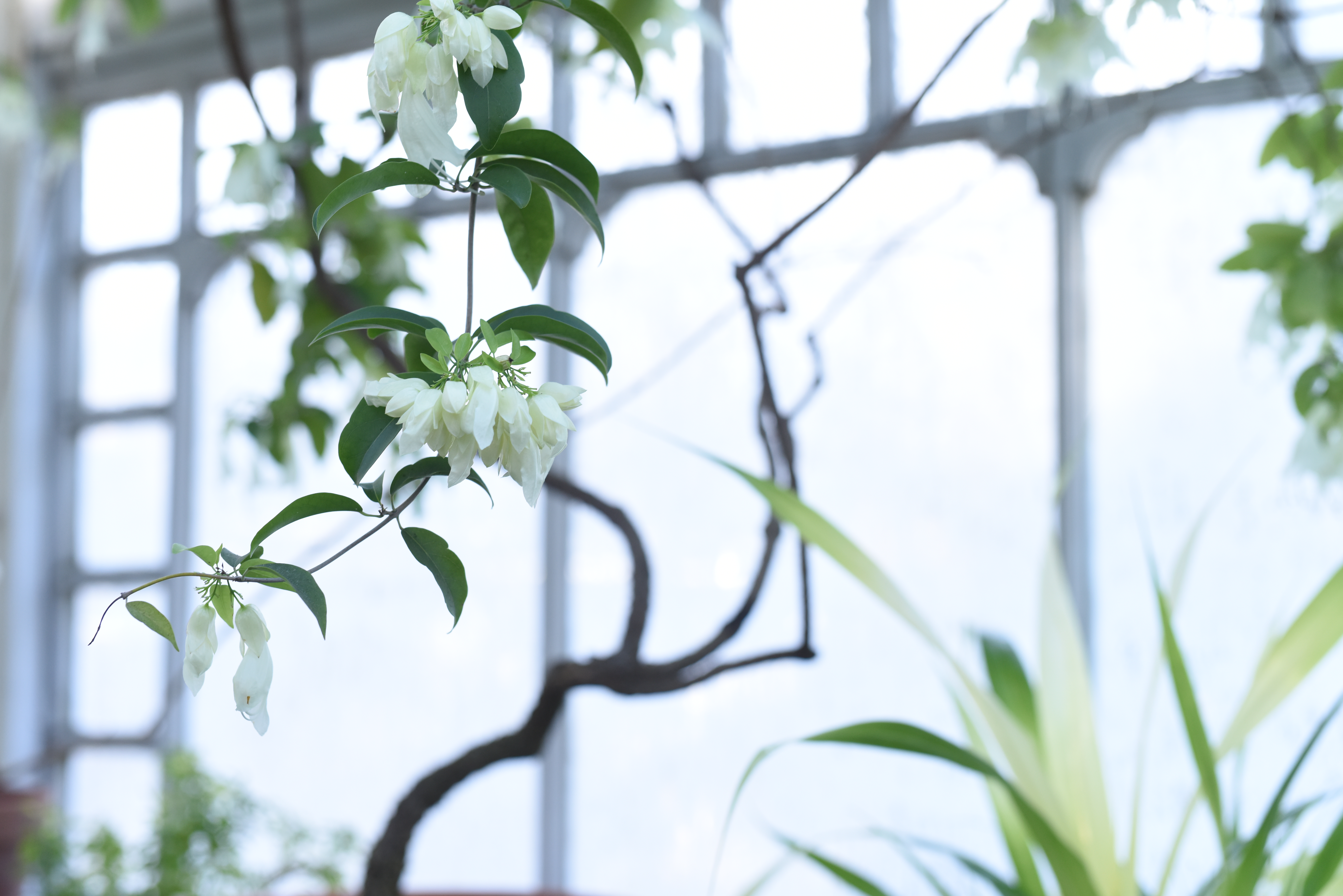 Talcott Greenhouse interior.